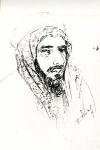 leader of ikhwan in Saudi arabia 1929-1930